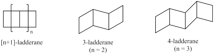 Different ladderanes